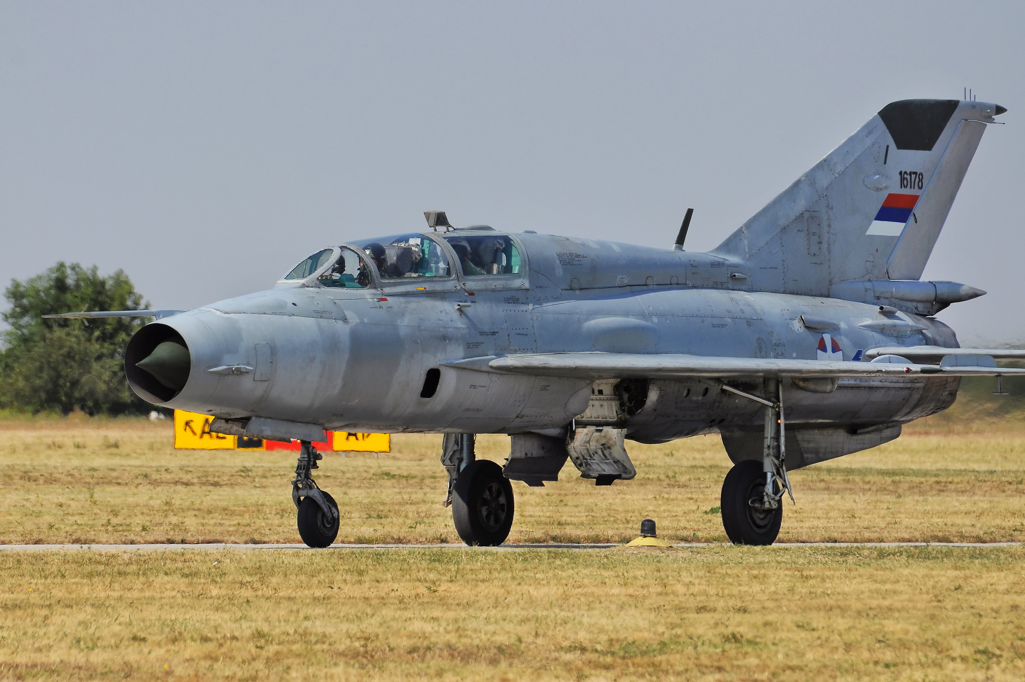 MiG-21 UM trainer-fighter aircraft No.16178 of 101. Fighter-Aviation Squadron of 204th Air Brigade of Serbian Air Force taxiing during the Batajnica 2012 Air Show.